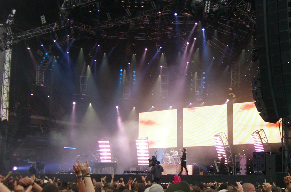 Band Muse at the German "Rock im Park" Festival 2007